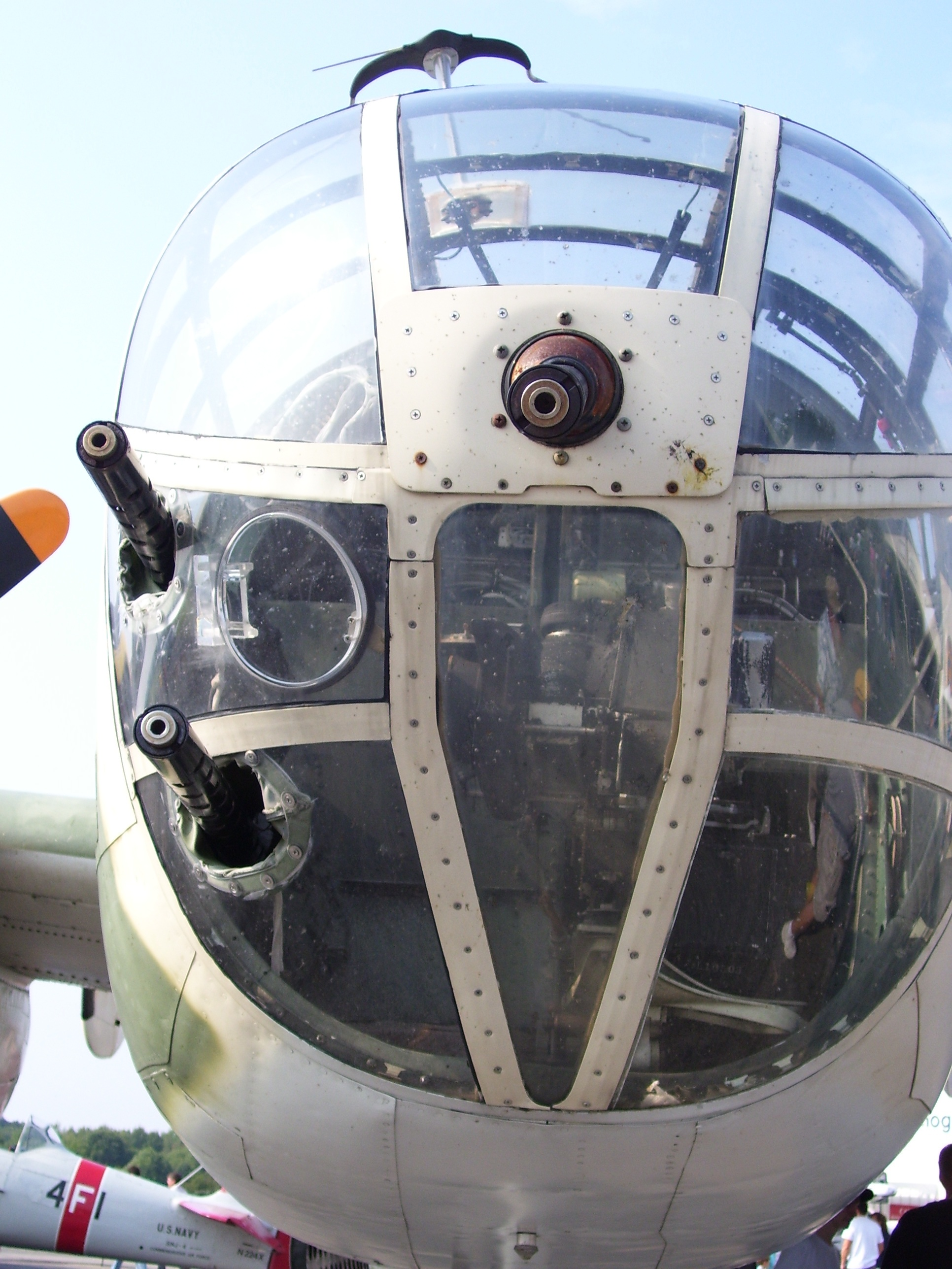 Front machine guns and bomb sight of a B-25 Mitchell. Taken by me at the 2006 Stow, Ohio Air show.